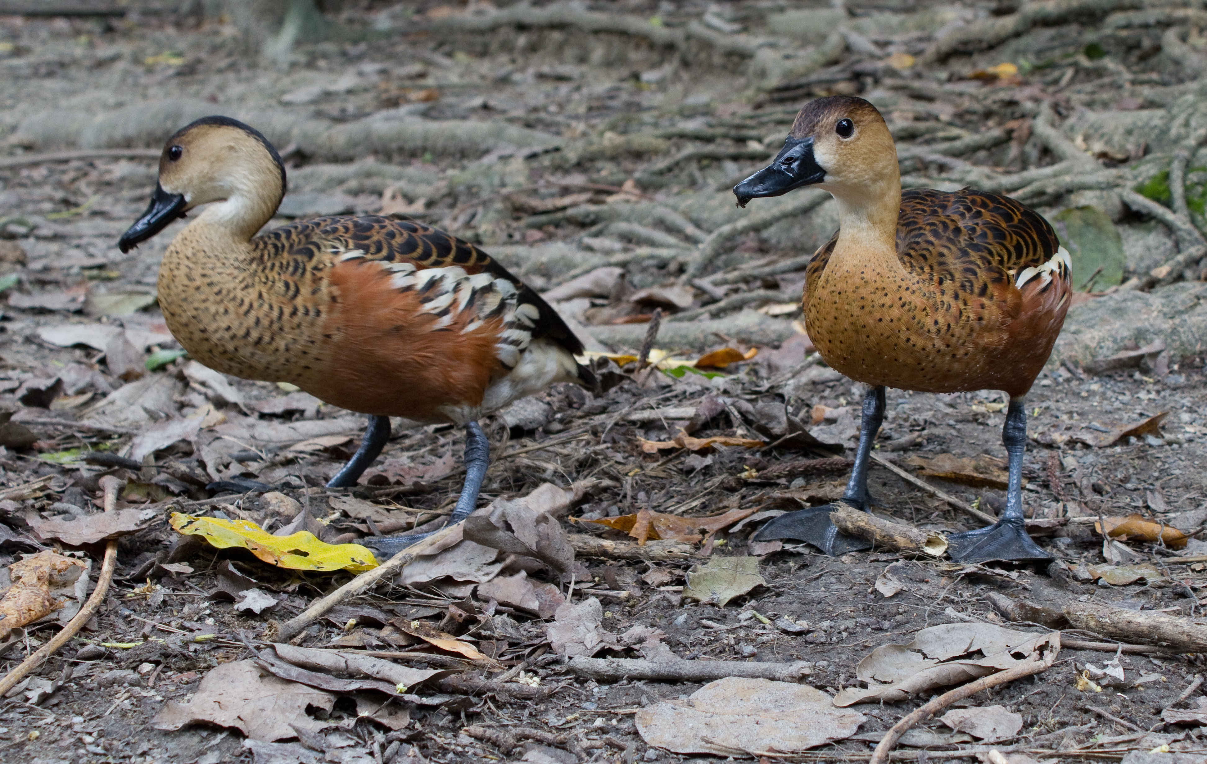 Two Wandering Whistling Ducks at Australia Zoo, Queensland, Australia.